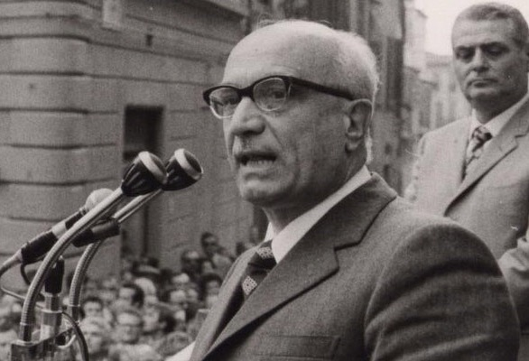 Amintore Fanfani